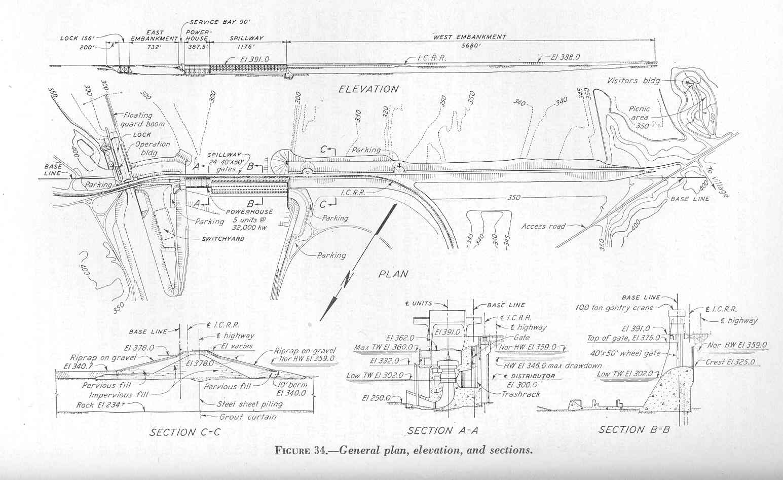 TVA's design plan for Kentucky Dam, on the Tennessee River in Marshall County, Kentucky, USA.